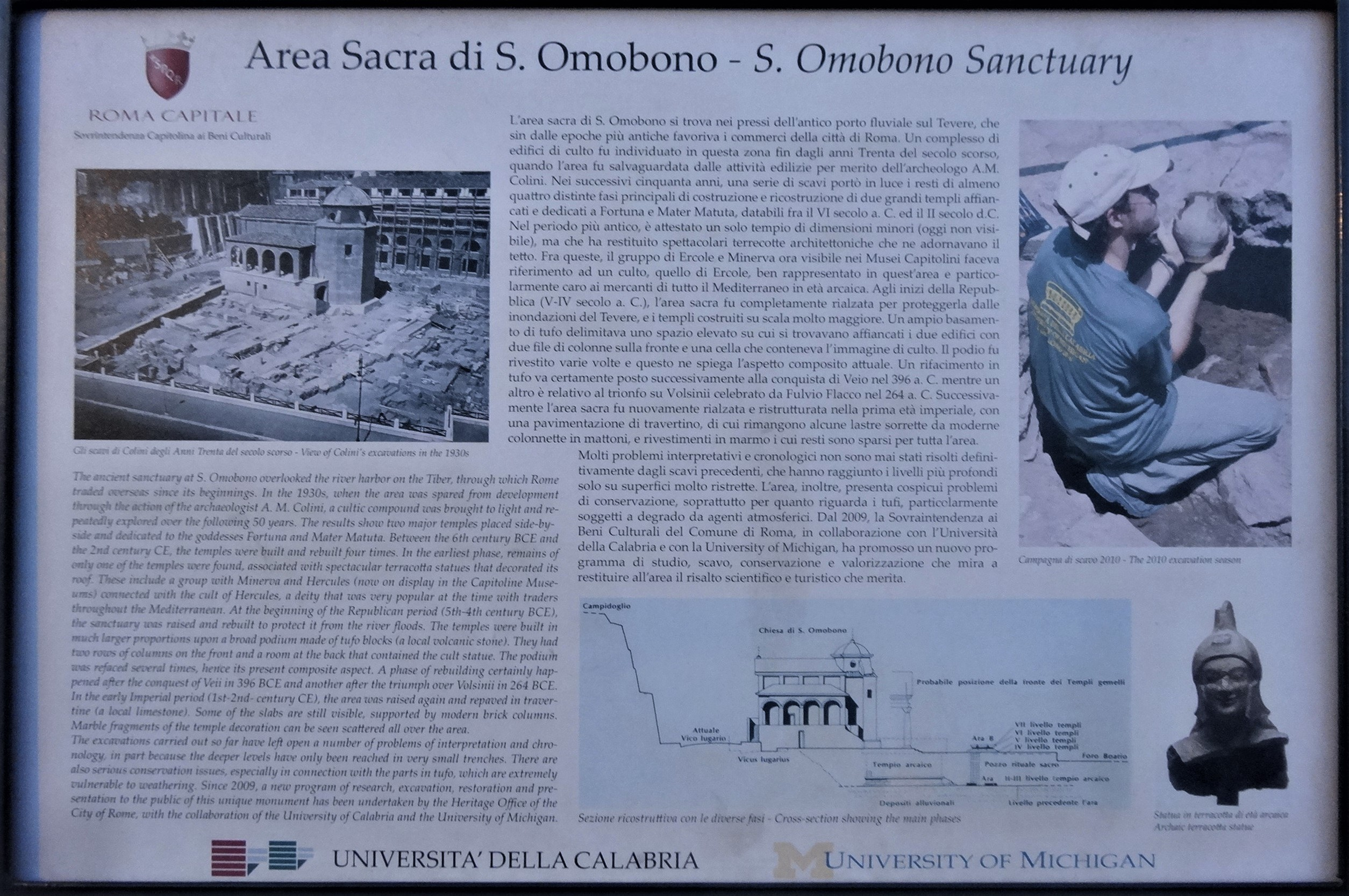 Sacred area of Sant'Omobono